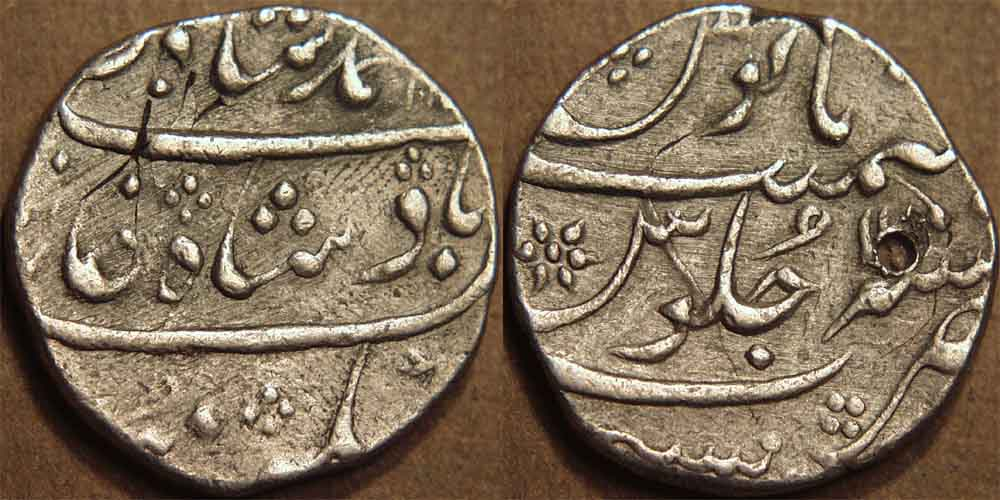 Silver rupee of the Bombay Presidency, in the name of the Mughal emperor Muhammad Shah (ruled 1719-1748), minted in Bombay in his regnal year 12